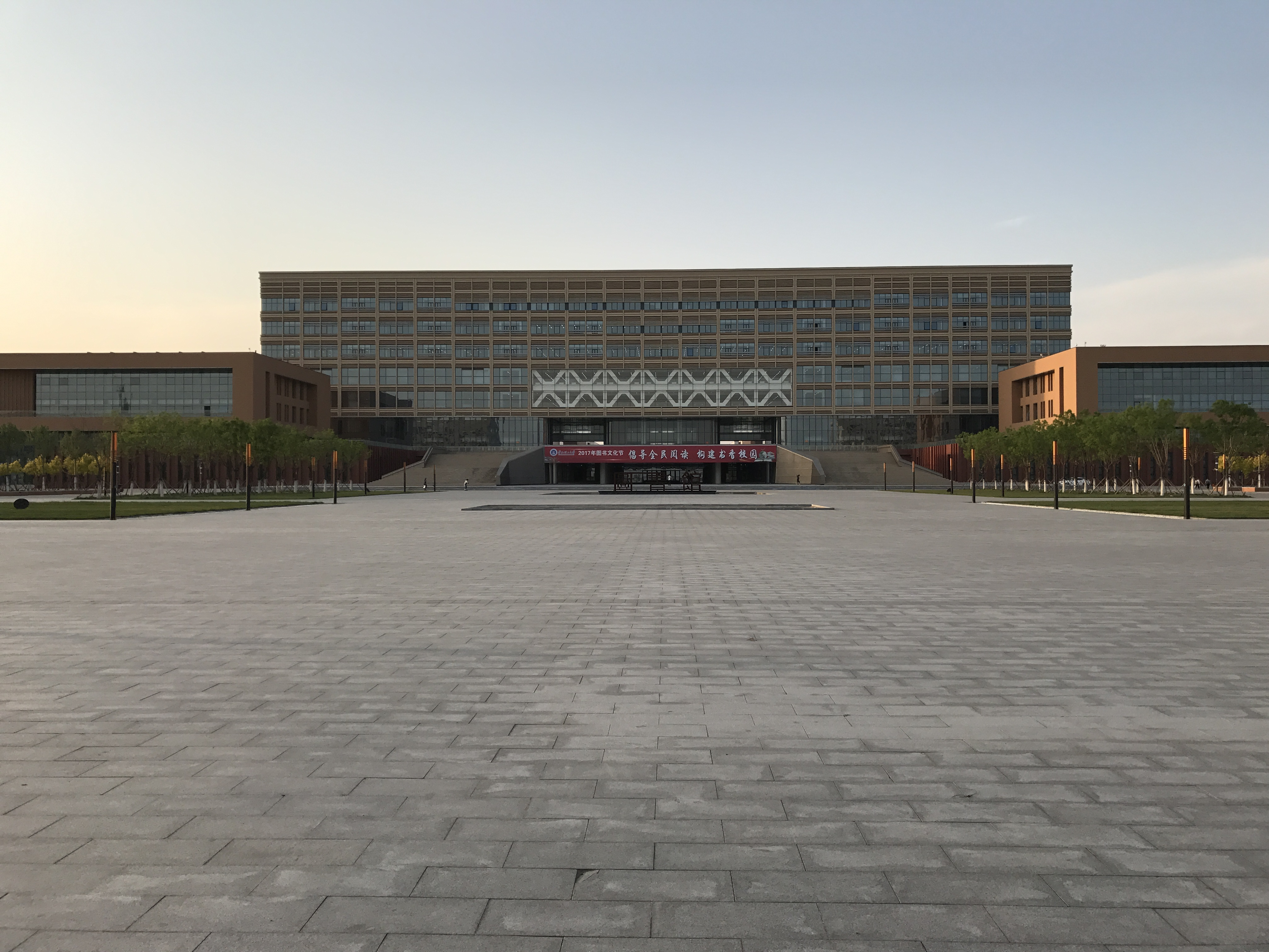 华北理工大学新校园图书馆